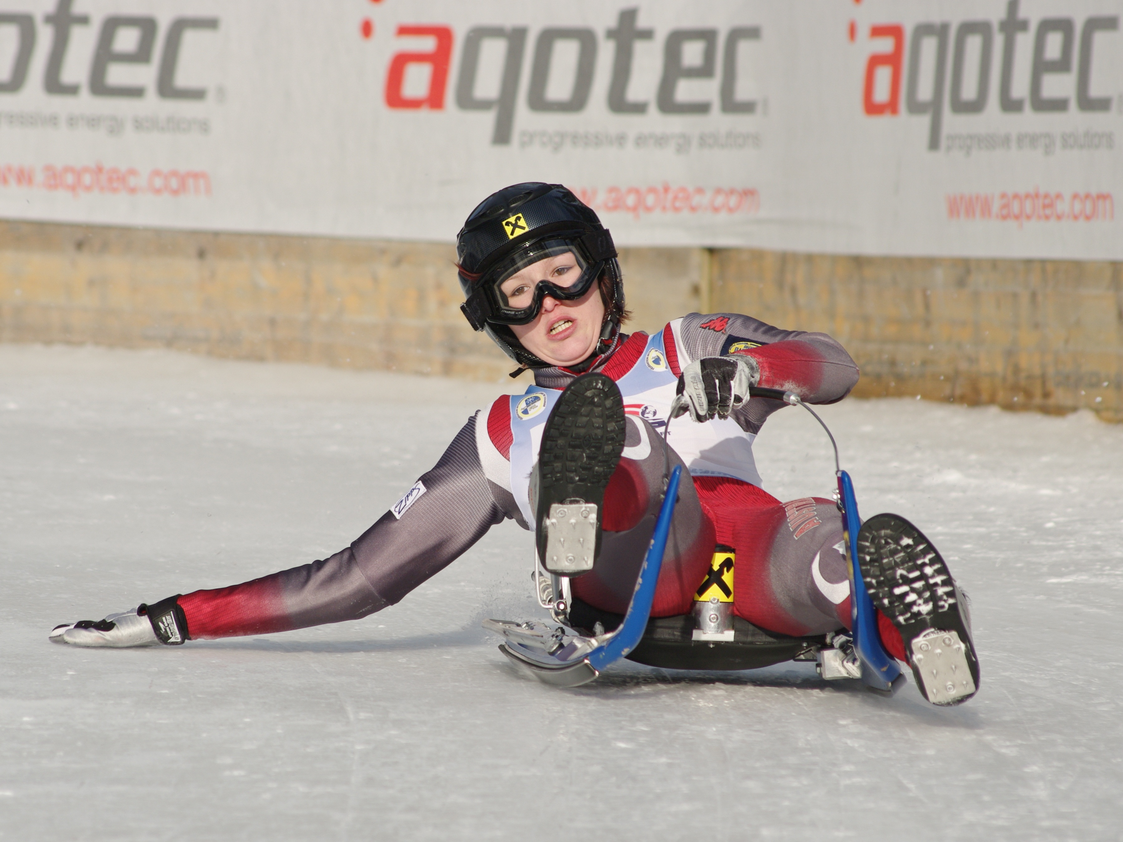 Austrian natural track luger Melanie Batkowski at the FIL European Luge Natural Track Championships 2010 in St. Sebastian, Austria.